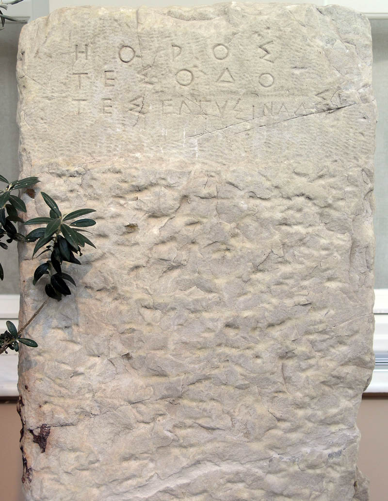 Boundary marker delineating the limits of the Sacred Way in Athens, ca. 520 BC. At the end of the 5th century BC, the original inscription was replaced by the words: ΗΟΡΟΣ ΤΕΣ ΟΔΟ ΤΕΣ ΕΛΕΥΣΙΝΑΔΣΙ, "Boundary stone of the road to Eleusis".